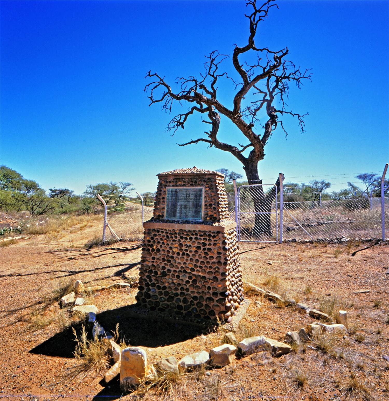 This media shows a South African Protected Site with SAHRA file reference 0000000000.